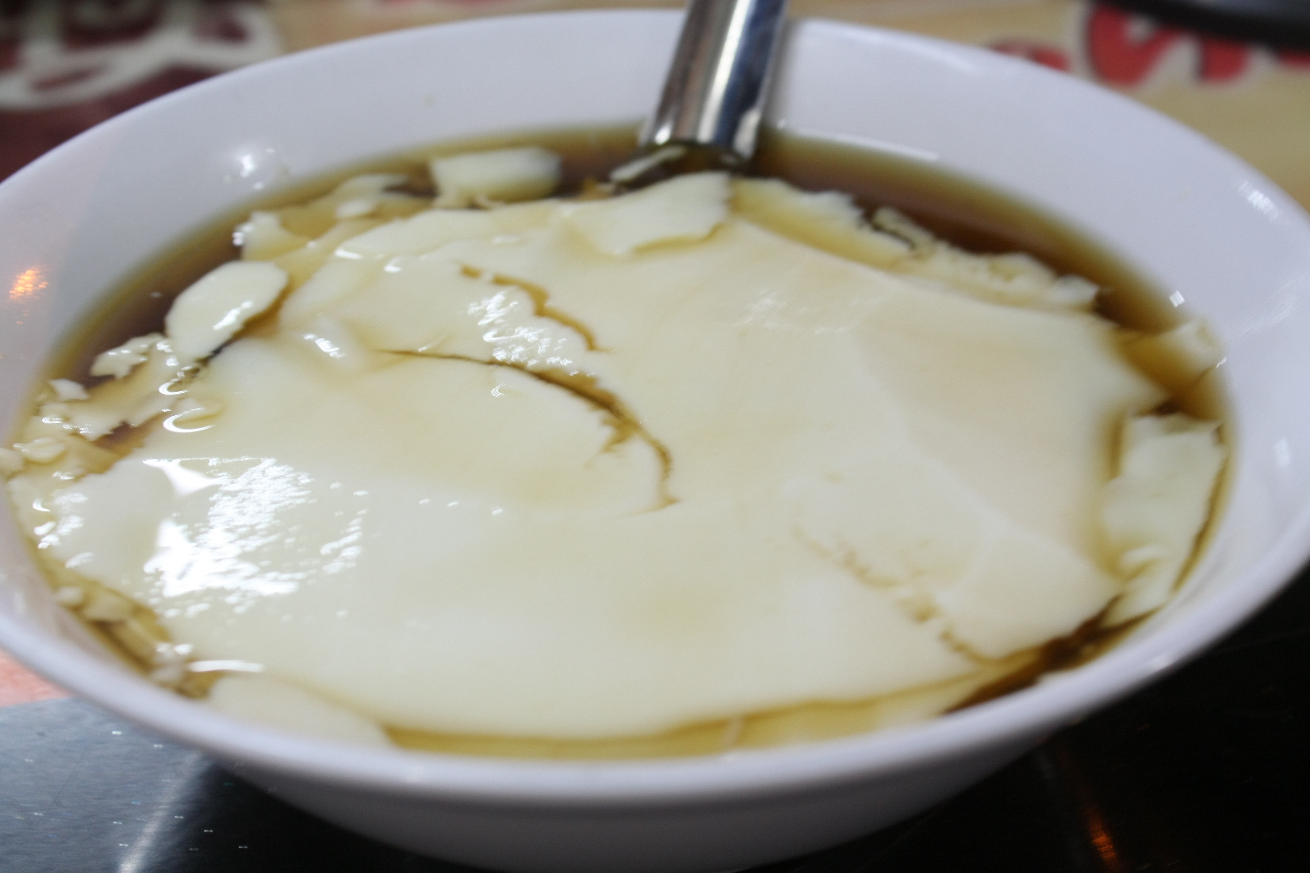 Kembang Tahu, made of tofu and ginger syrup